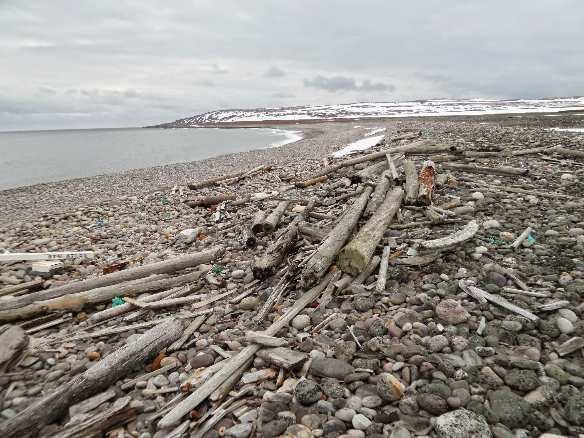 Driftwood in Molvika near Vardø, Finnmark, Norway